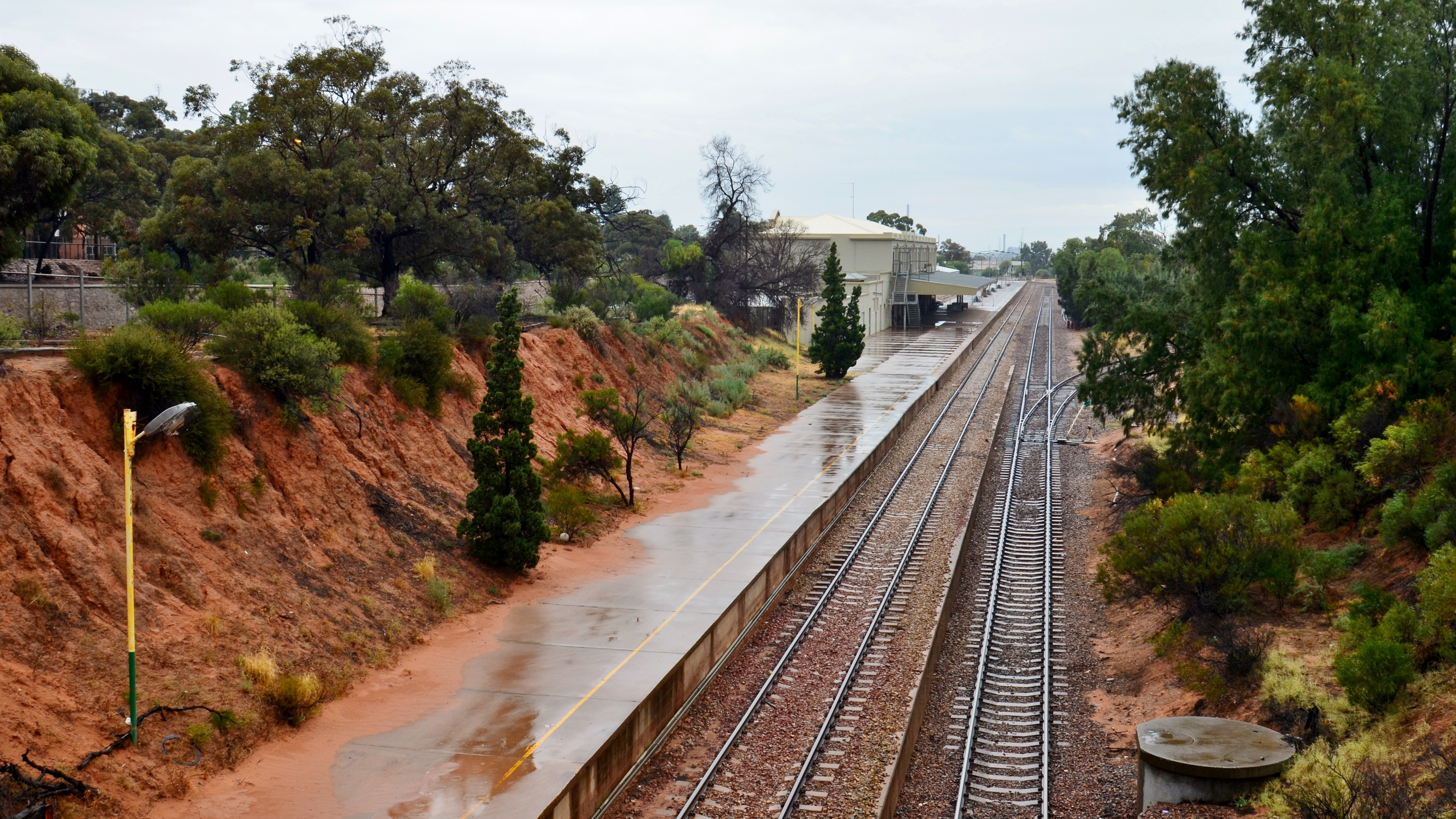 View of the main platform road at Port Augusta railway station